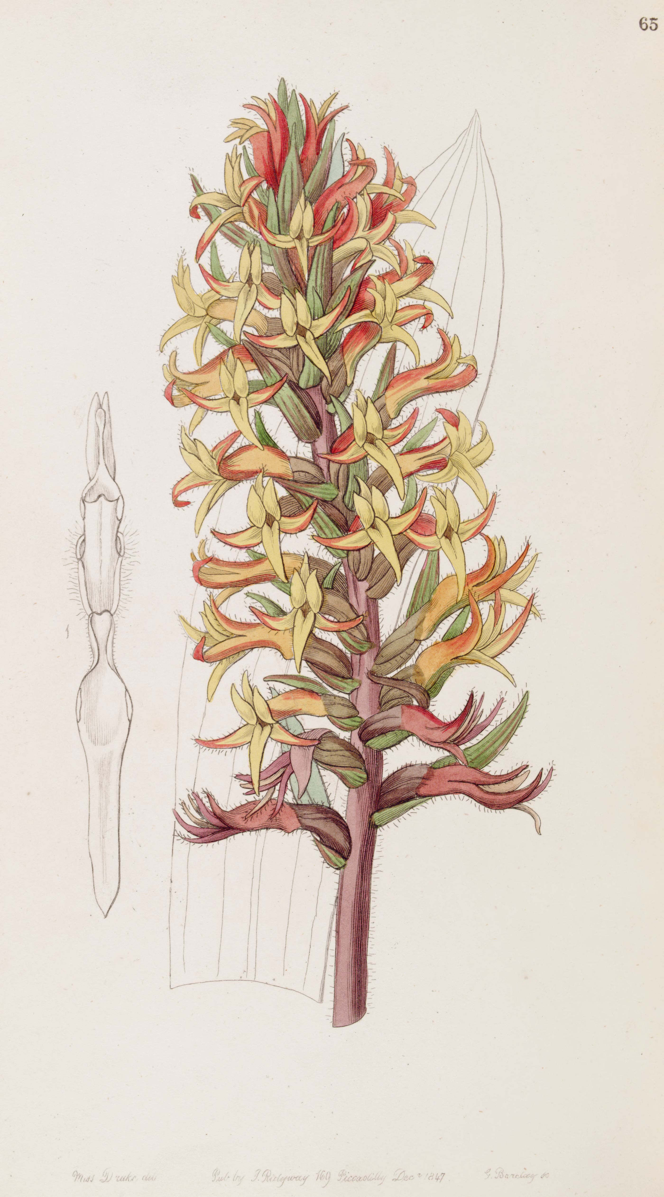 Dichromanthus cinnabarinus (as syn. Stenorrhynchos cinnabarinum, spelled by Lindley as Stenorhynchus cinnabarinus))